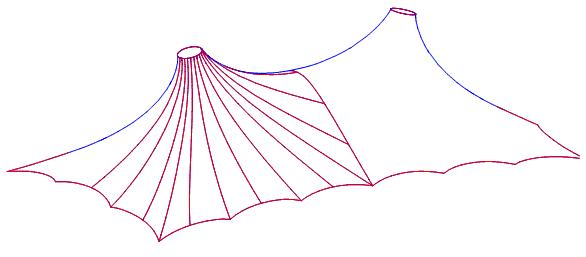 Double_Peek